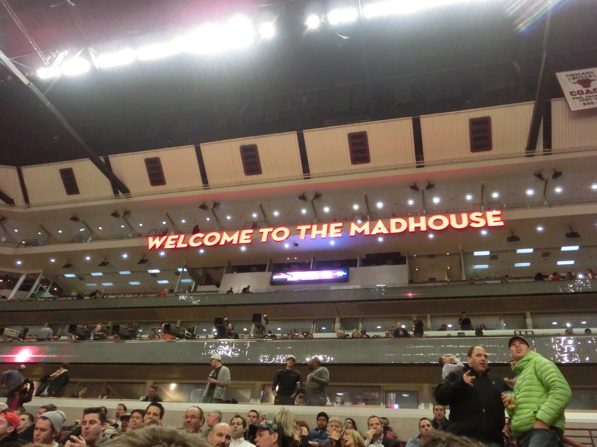 Madhouse on Madison